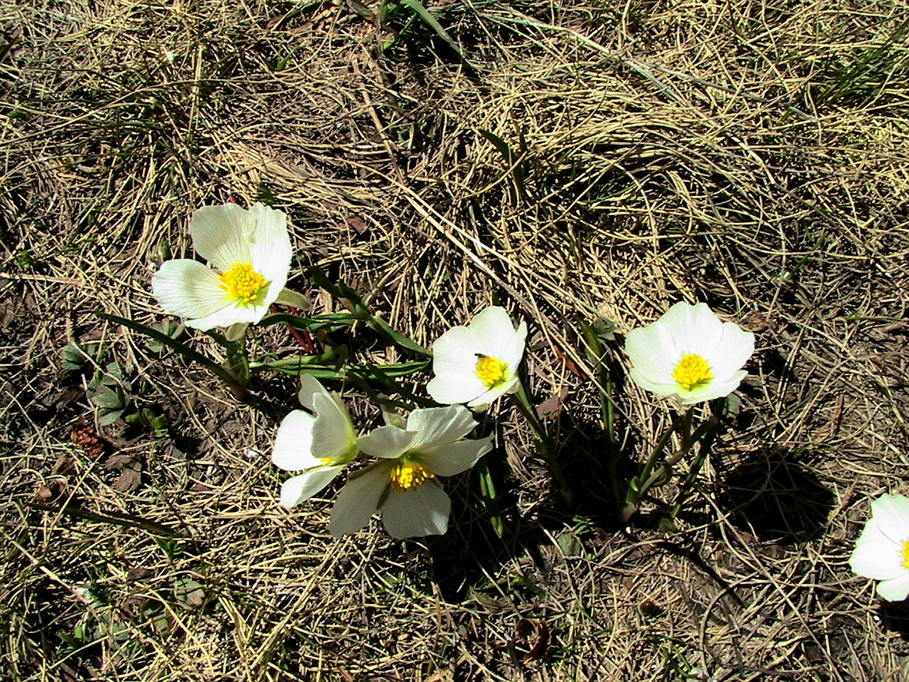 Ranunculus pyrenaeus. In Estany Neriolo, Cabdella (Pallars Jussà - Catalunya). To 2.340 m. altitude